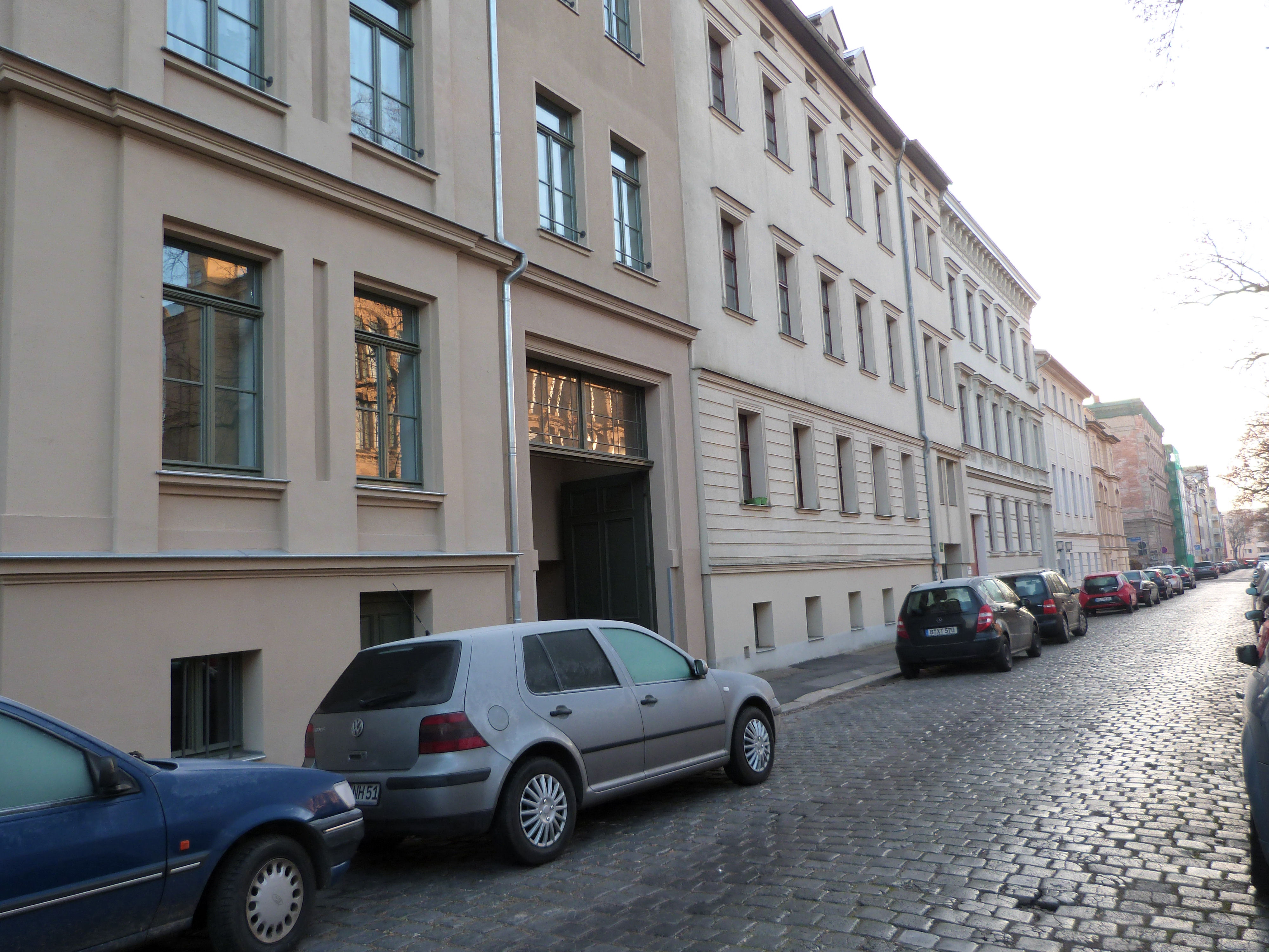 Emil-Abderhalden-Strasse in Halle (Saale), view to west, No. 33 ff.